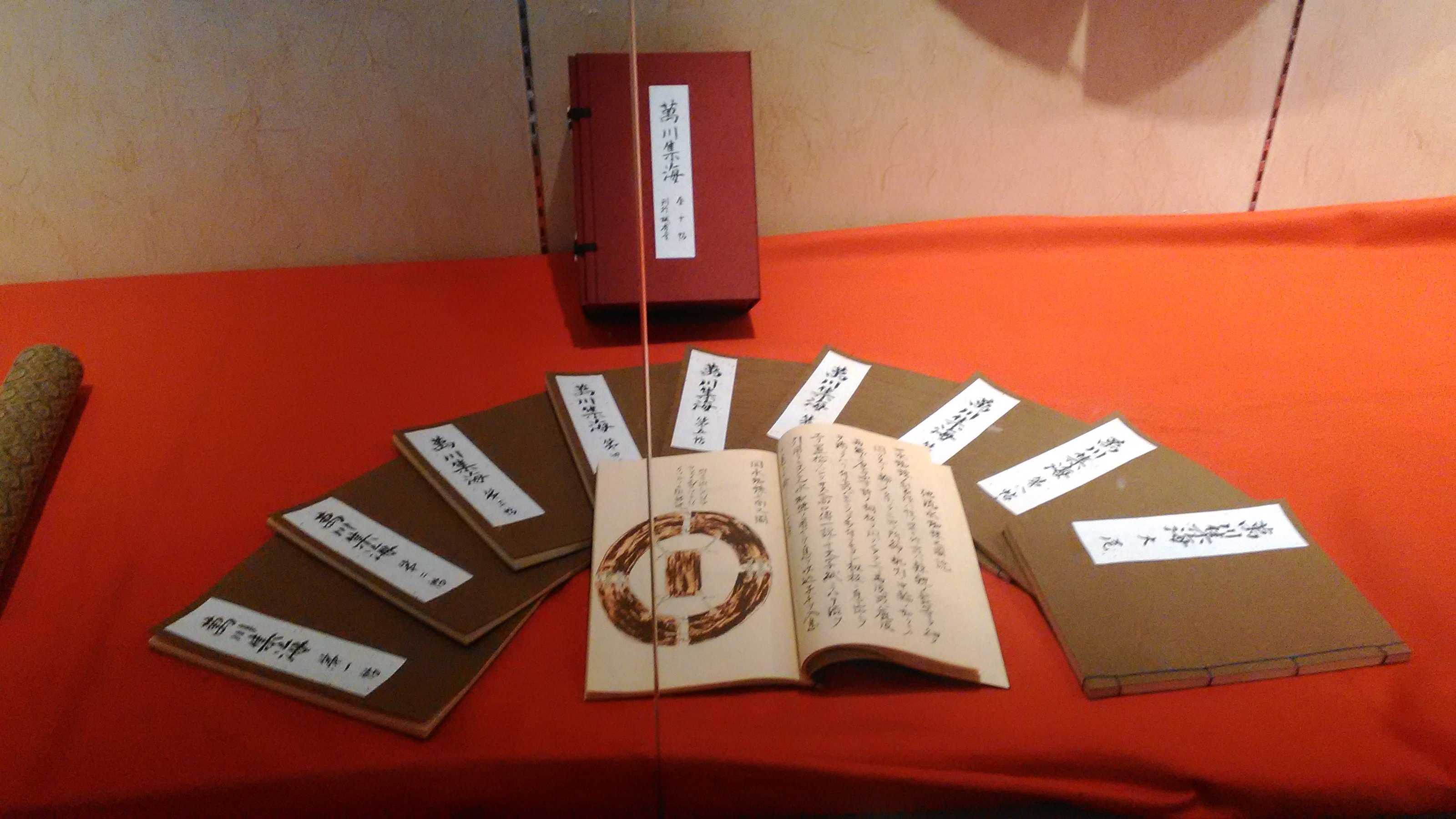 Japanese book containing a collection of knowledge from the clans in the Iga and Kōga regions that had been devoted to the training of ninja